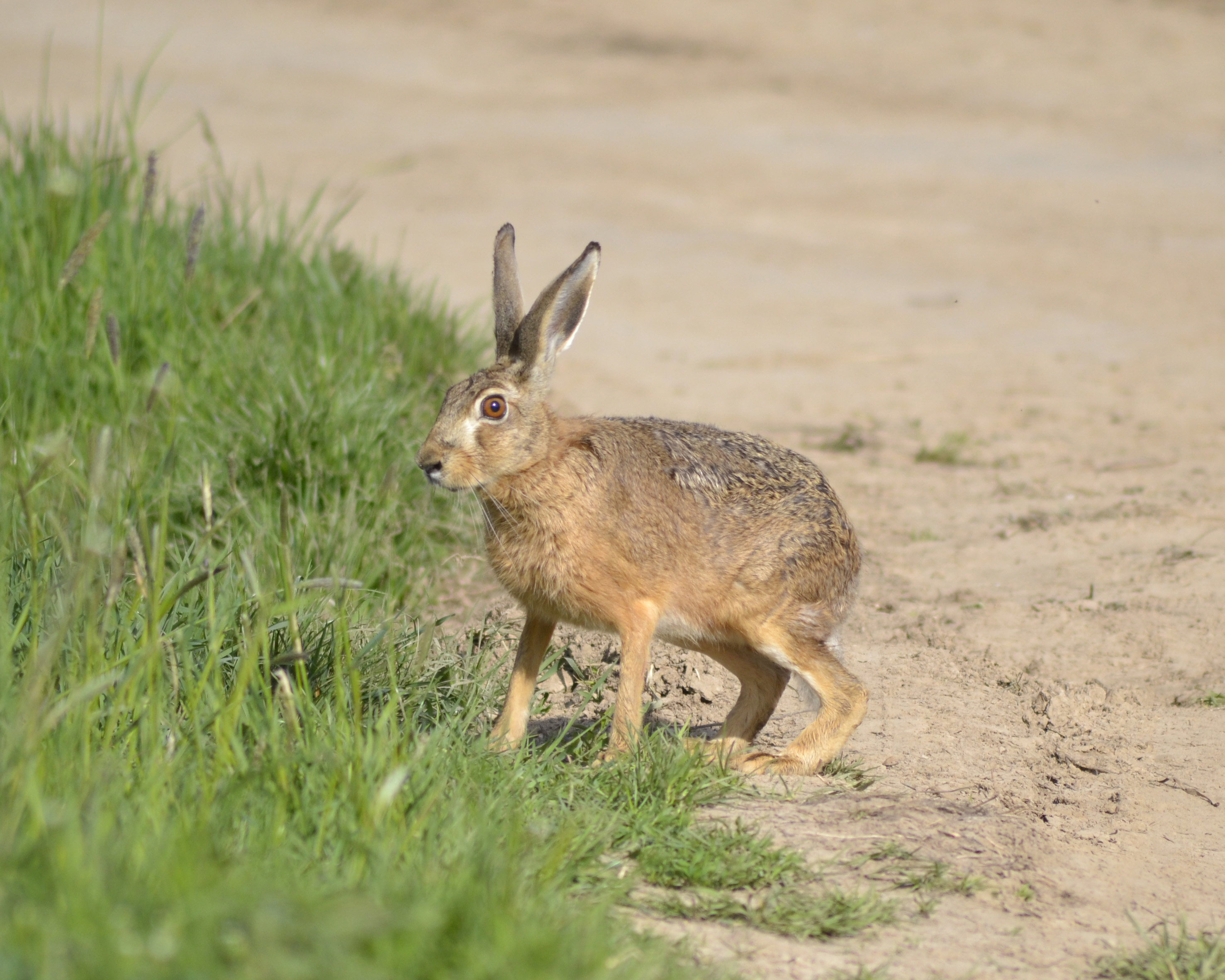 A carefully observing hare crosses an agricultural road